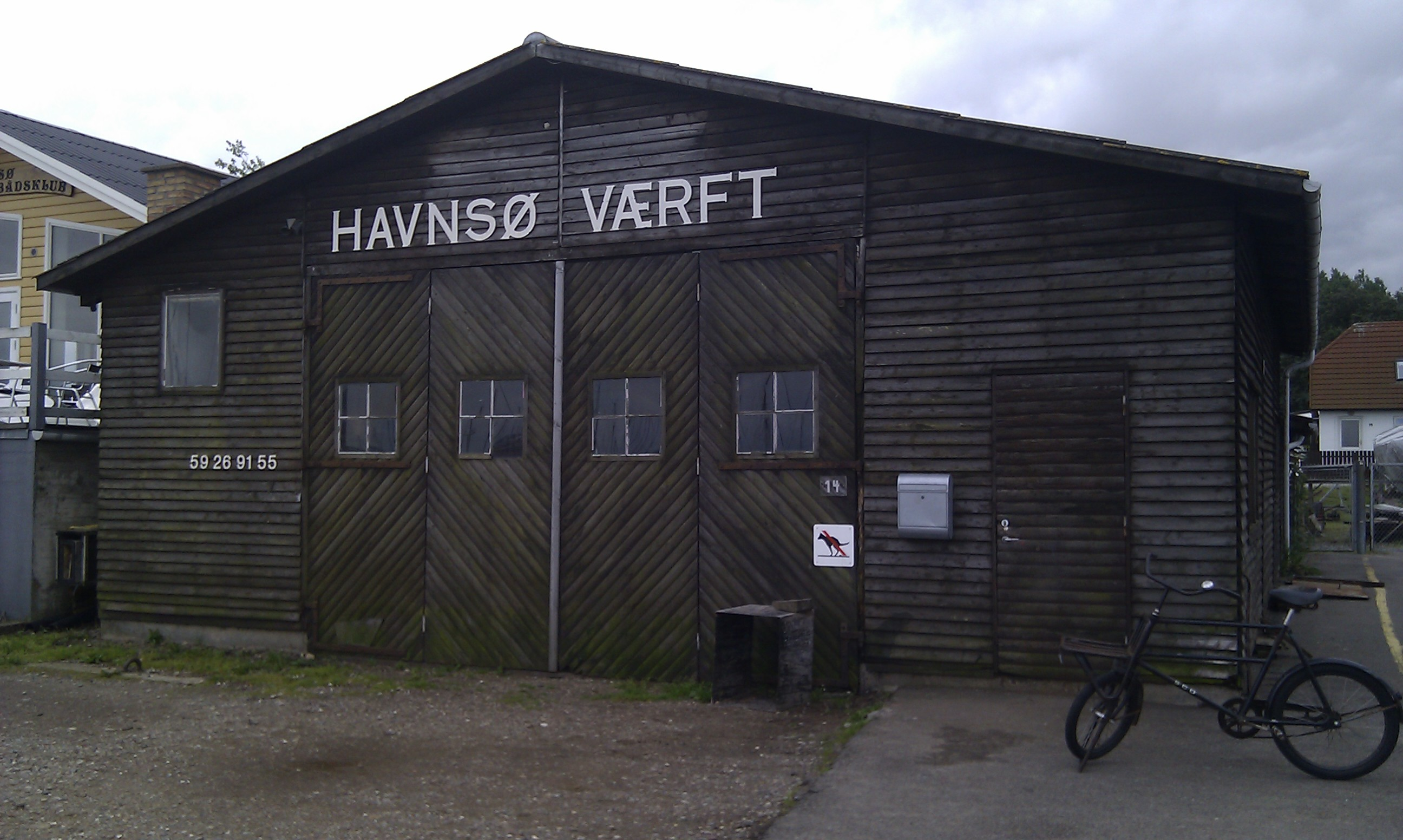 Dockyard for smaller boats in Havnsø, Western Zealand, Denmark